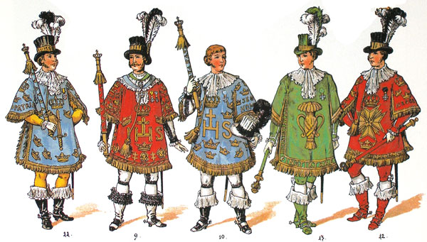 Heralds of Sweden. From left: Herald of the Order of the Sword, Herald of the Realm, Herald of the Order of the Seraphim, Herald of the Order of Vasa, Herald of the Order of the Polar Star